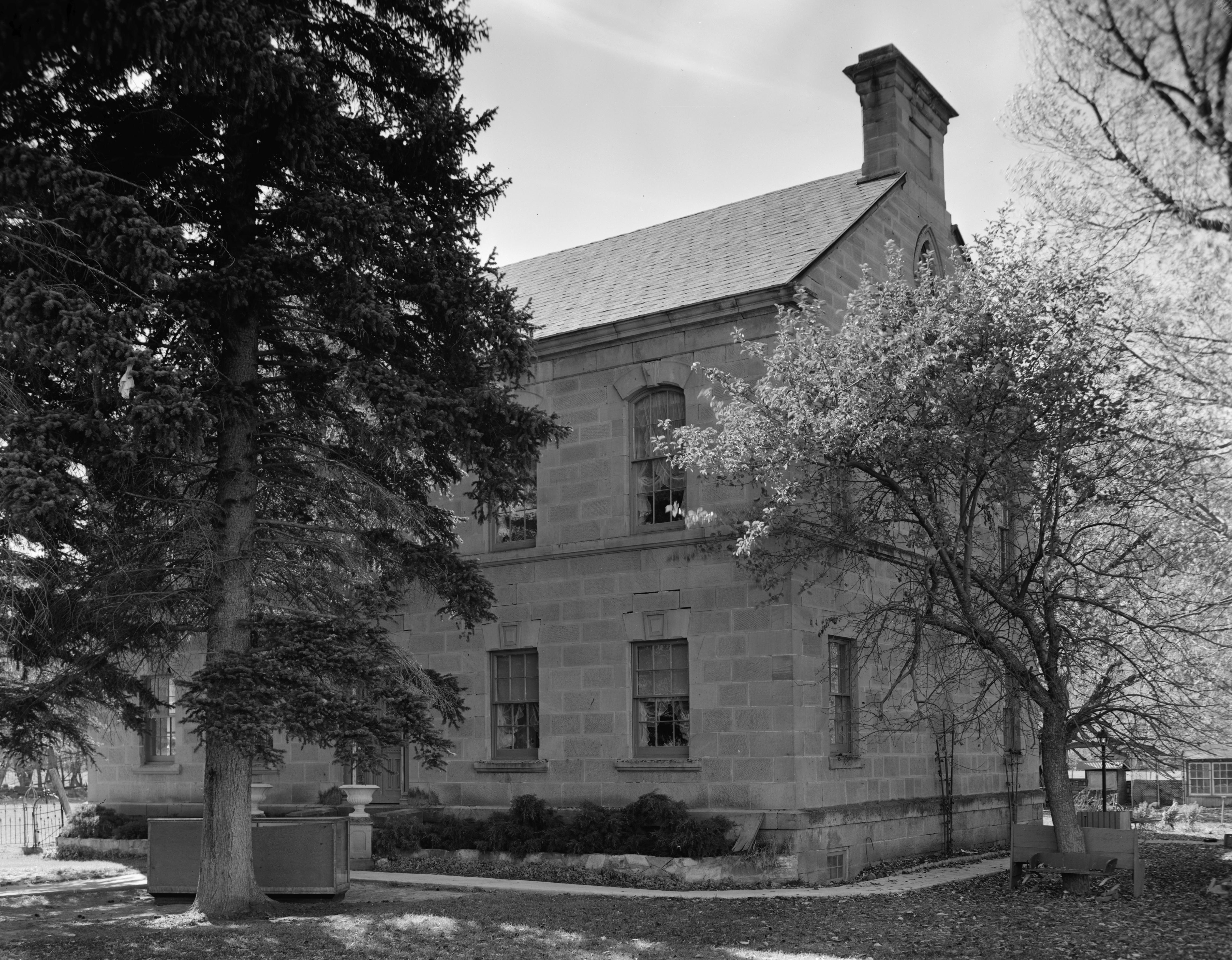 Front of the Samuel P. Hoyt House, located off Interstate 80 in Hoytsville, Utah, United States. Built in 1863, it is listed on the National Register of Historic Places.